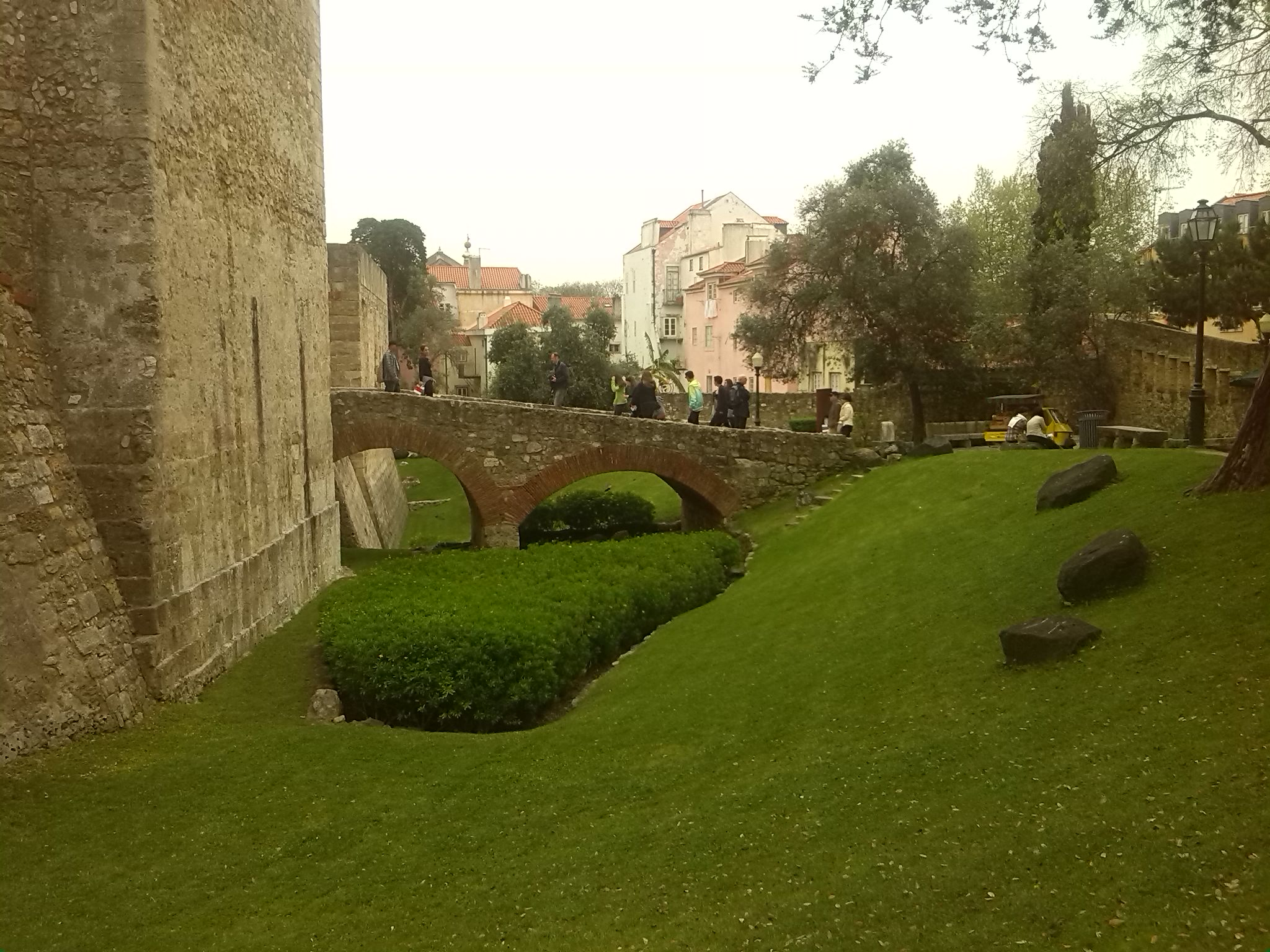 São Jorge Castle's bridge, Lisbon, Portugal